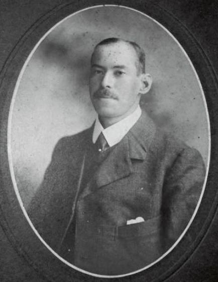 His father William Willis was an Irish doctor, and his mother Enatsu Yae was a daughter of a samurai from Shimazu, Japan.